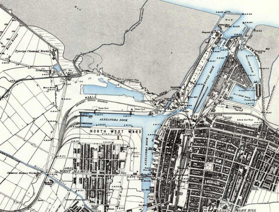 Cropped map showing Grimsby docks c.1890 Contrast enhanced etc using Picassa for in-article display